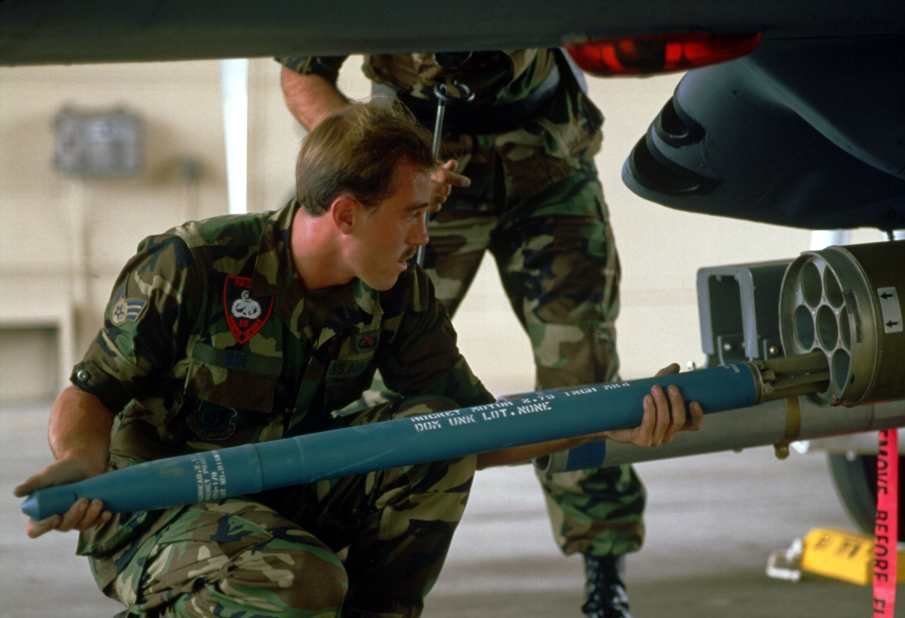 Sgt. Brian Boe loads a 2.75-inch rocket with a practice warhead into an M-260 rocket pod mounted on an OV-10 Bronco aircraft during the Pacific Air Forces (PACAF) combat ammunition production and combat aircraft servicing competition Sabre Spirit '88.